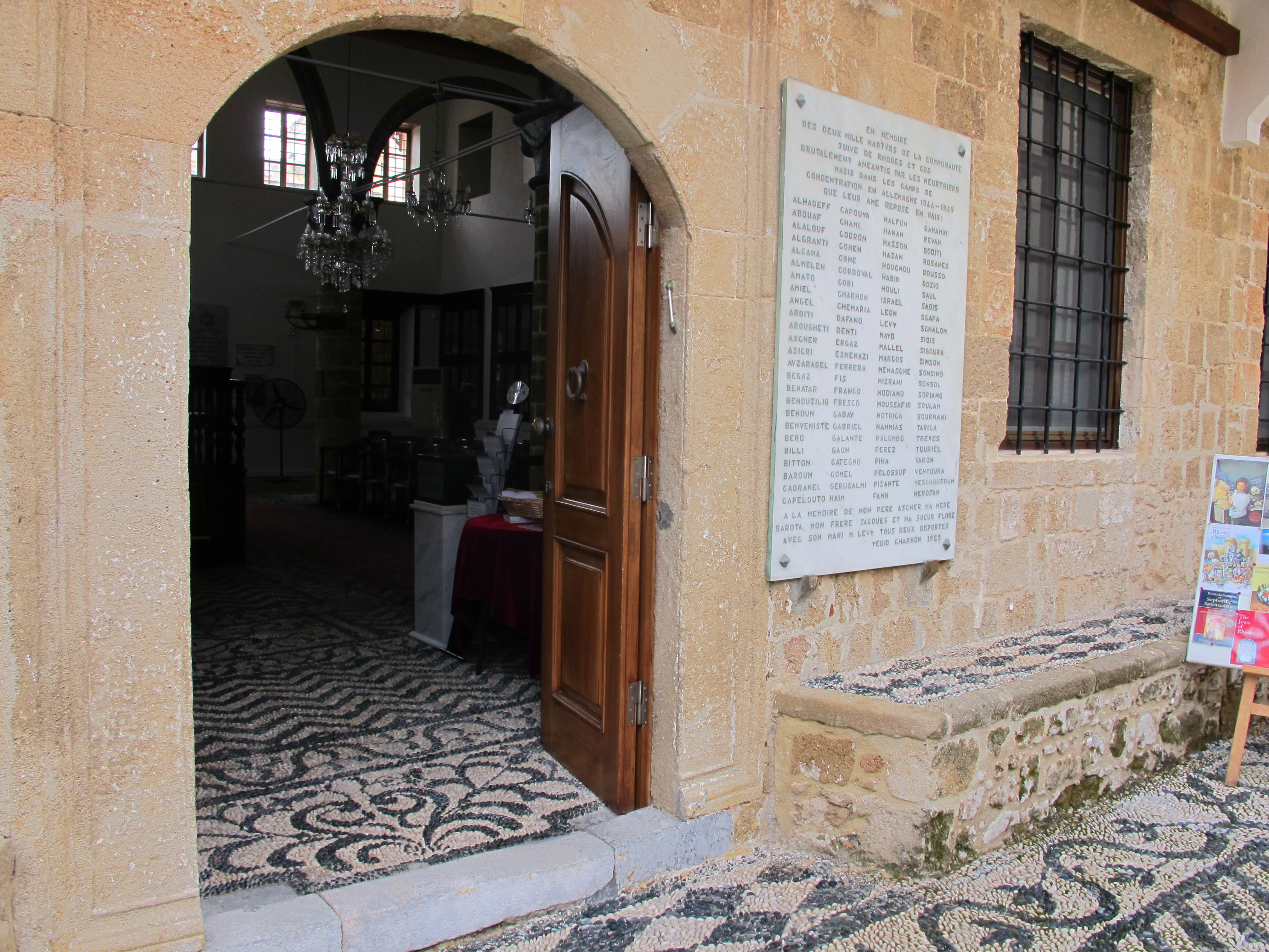 Entrance of the Kahal Shalom Synagogue